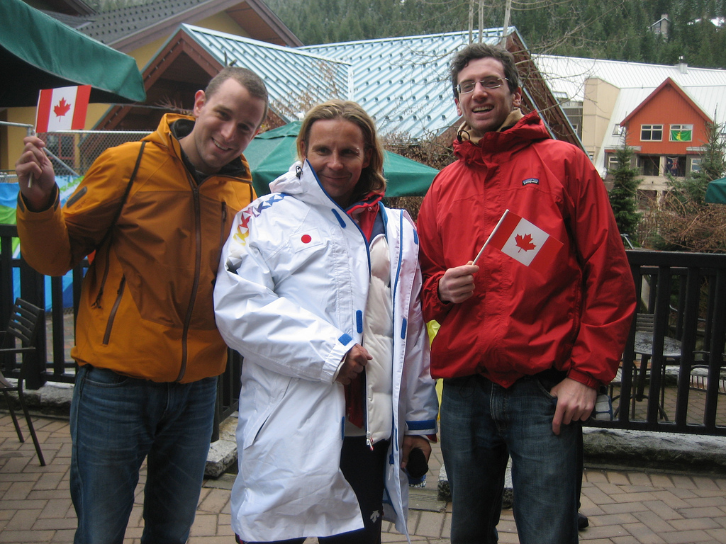 Janne Lahtela (center) as the coach of the Japanese freestyle team at the 2010 Winter Olympics.